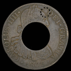 Photograph of defunct coinage